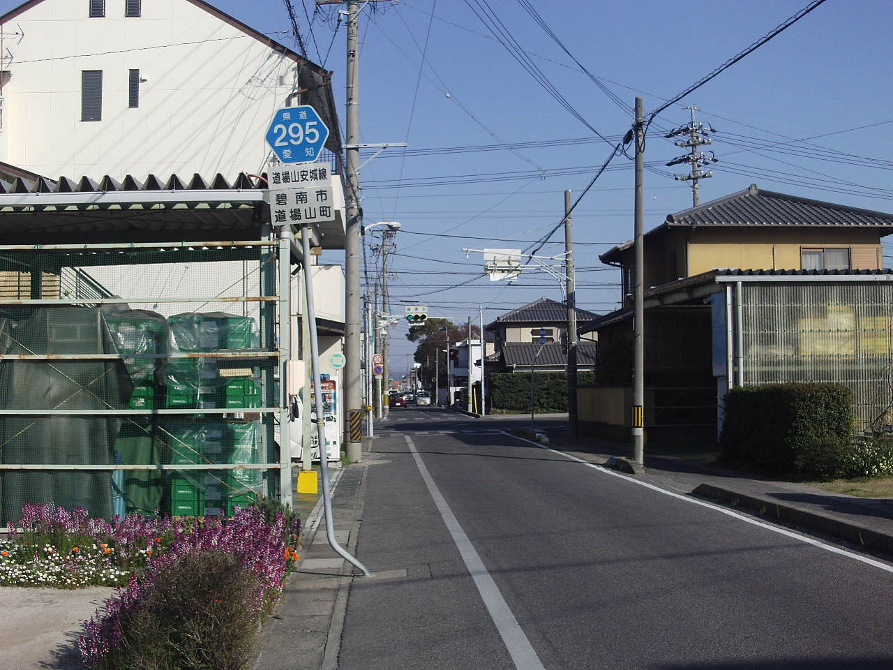 Aichi prefectural road No.295 in Dojoyamamachi, Hekinan, Aichi.